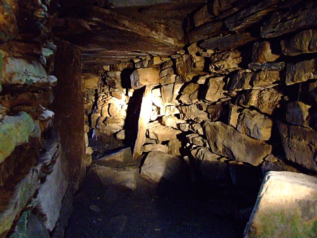 Camster Cairns This looking back out the passageway that you have to crawl in on your hands and knees.